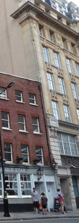 Cropped photo of 54 Broadway, Westminster (building on the right)